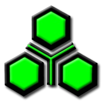 Symbol of tiberium in Command & Conquer games